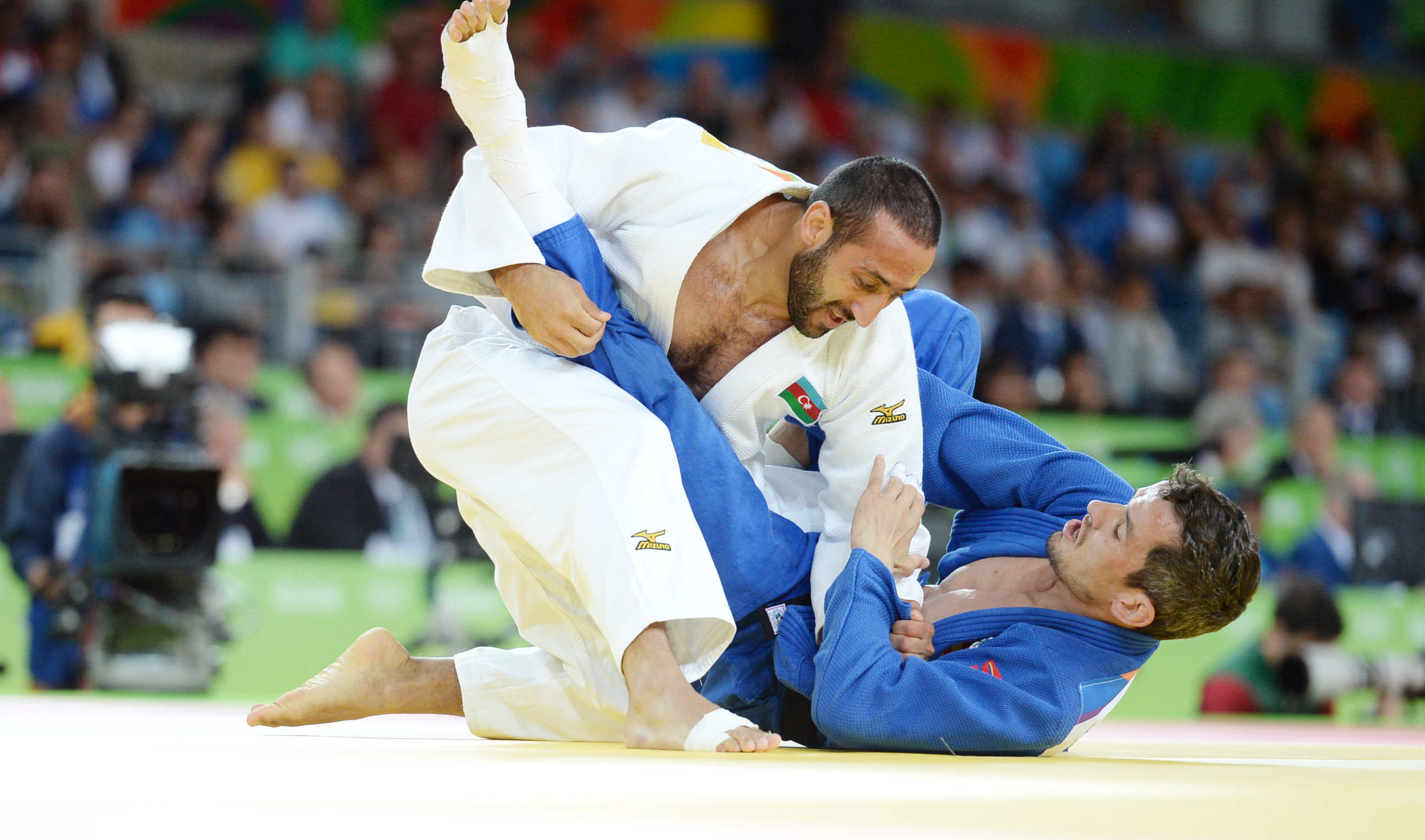 Judo at the 2016 Summer Olympics, Shikhalizade vs Uriarte